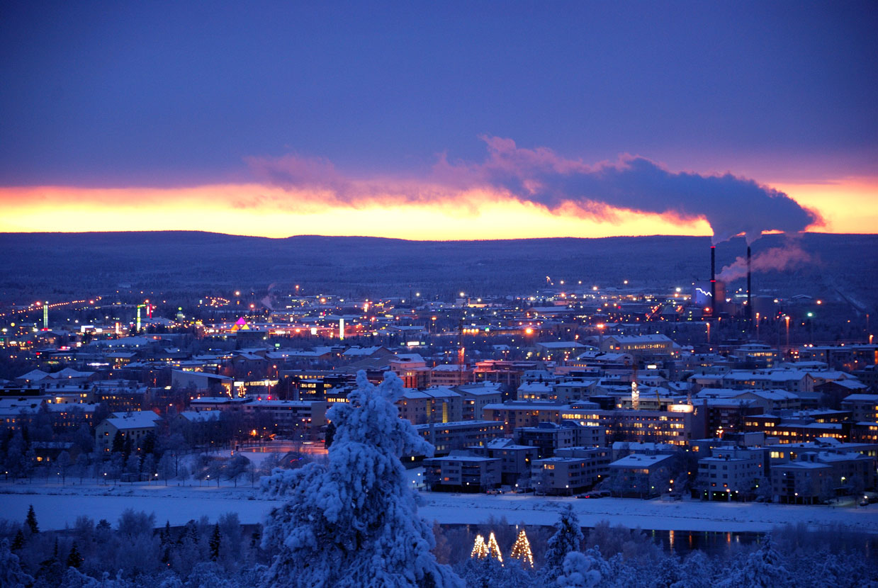 City Center of Rovaniemi seen from Ounasvaara.